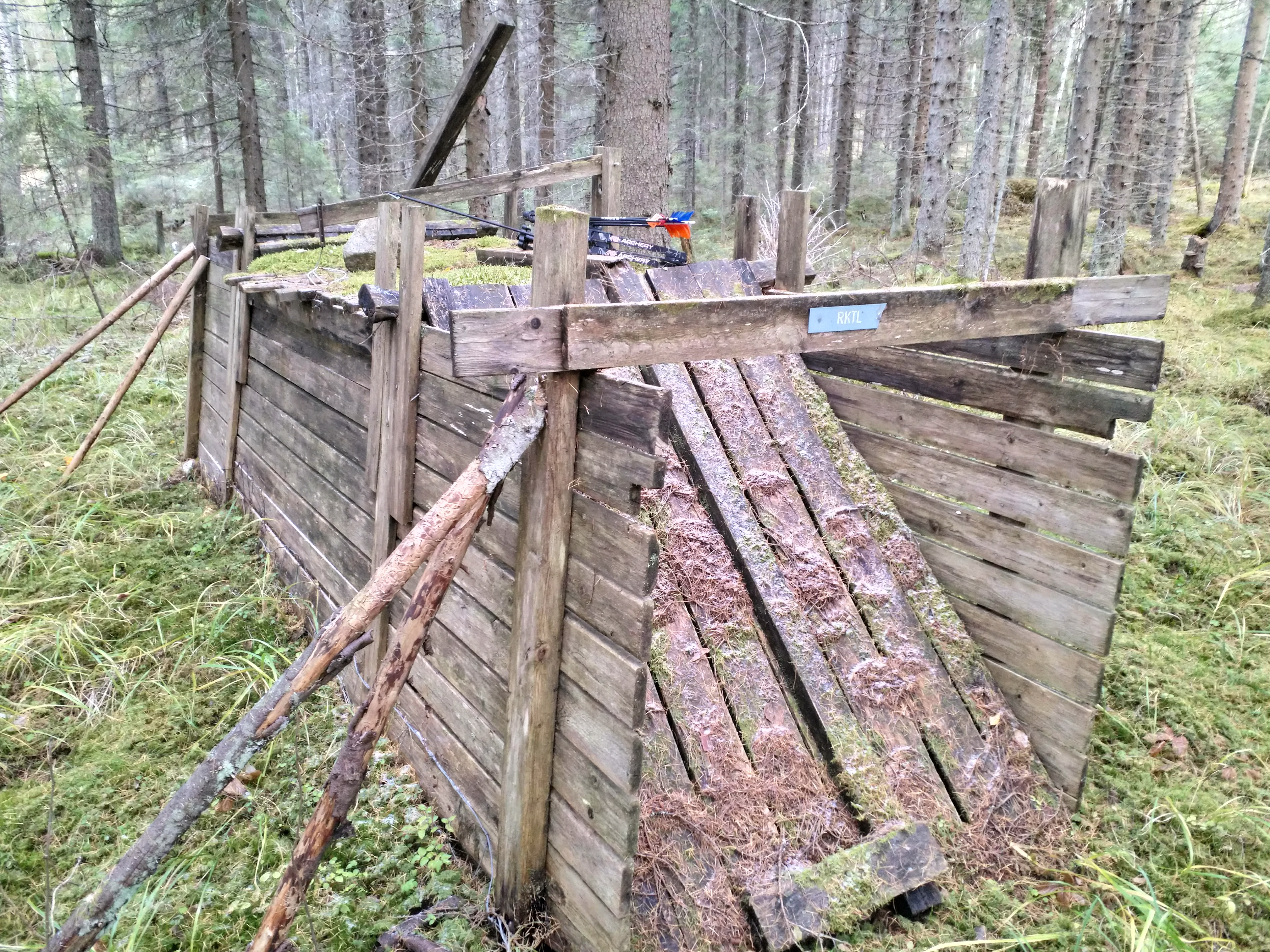 Decomissioned live capture trap in Finland